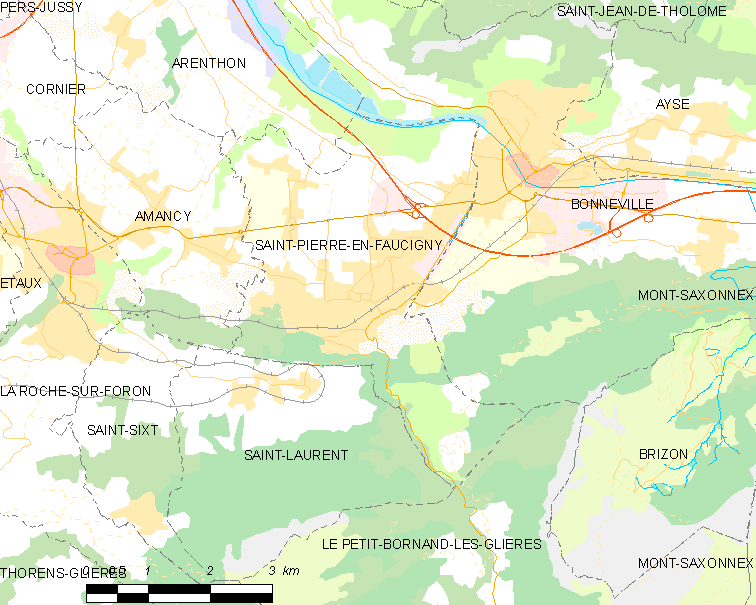 Map of French municipality Saint-Pierre-en-Faucigny